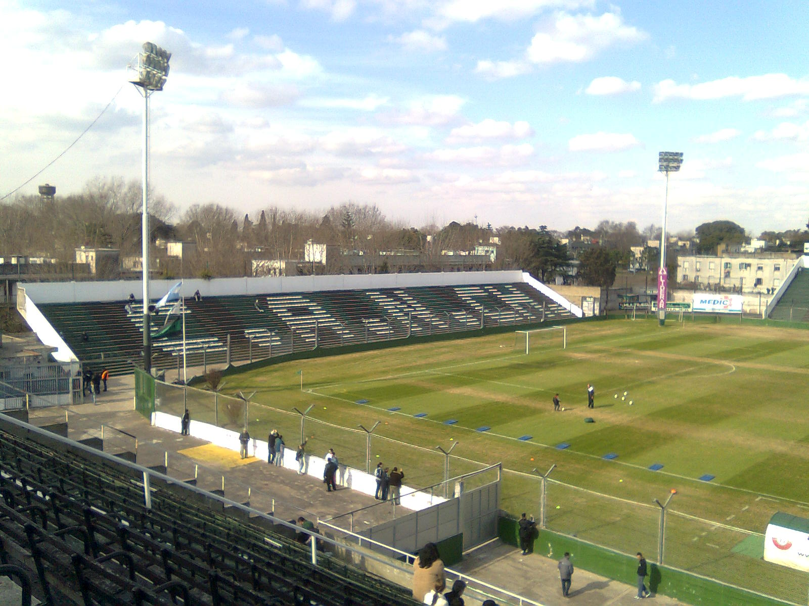 Tribuna que da al barrio de Los Perales